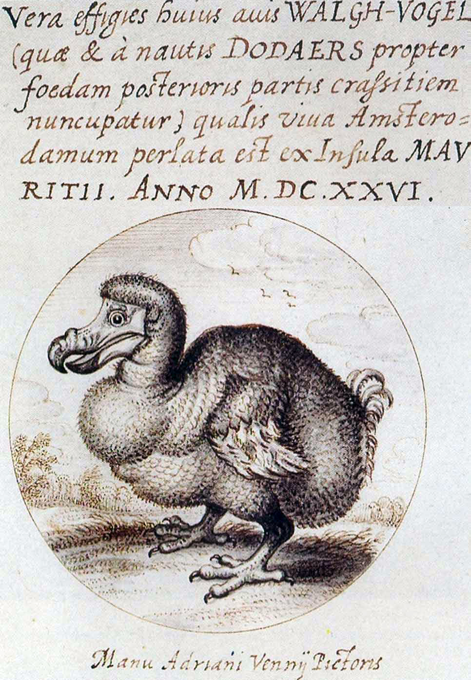 Dodo claimed to be based on a specimen seen by van den Venne in Amsterdam. It is very similar to Roelant Savery's painting from the same year.